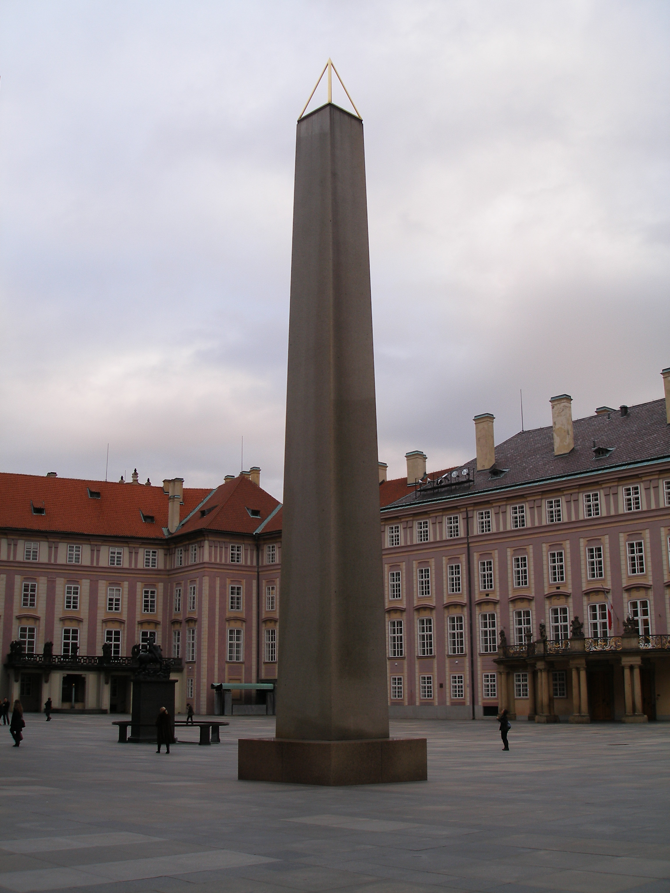 Obelisk in Prague Castle.